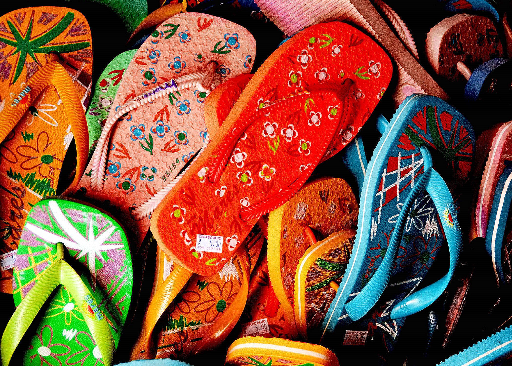 Assorted colorful flip-flops.